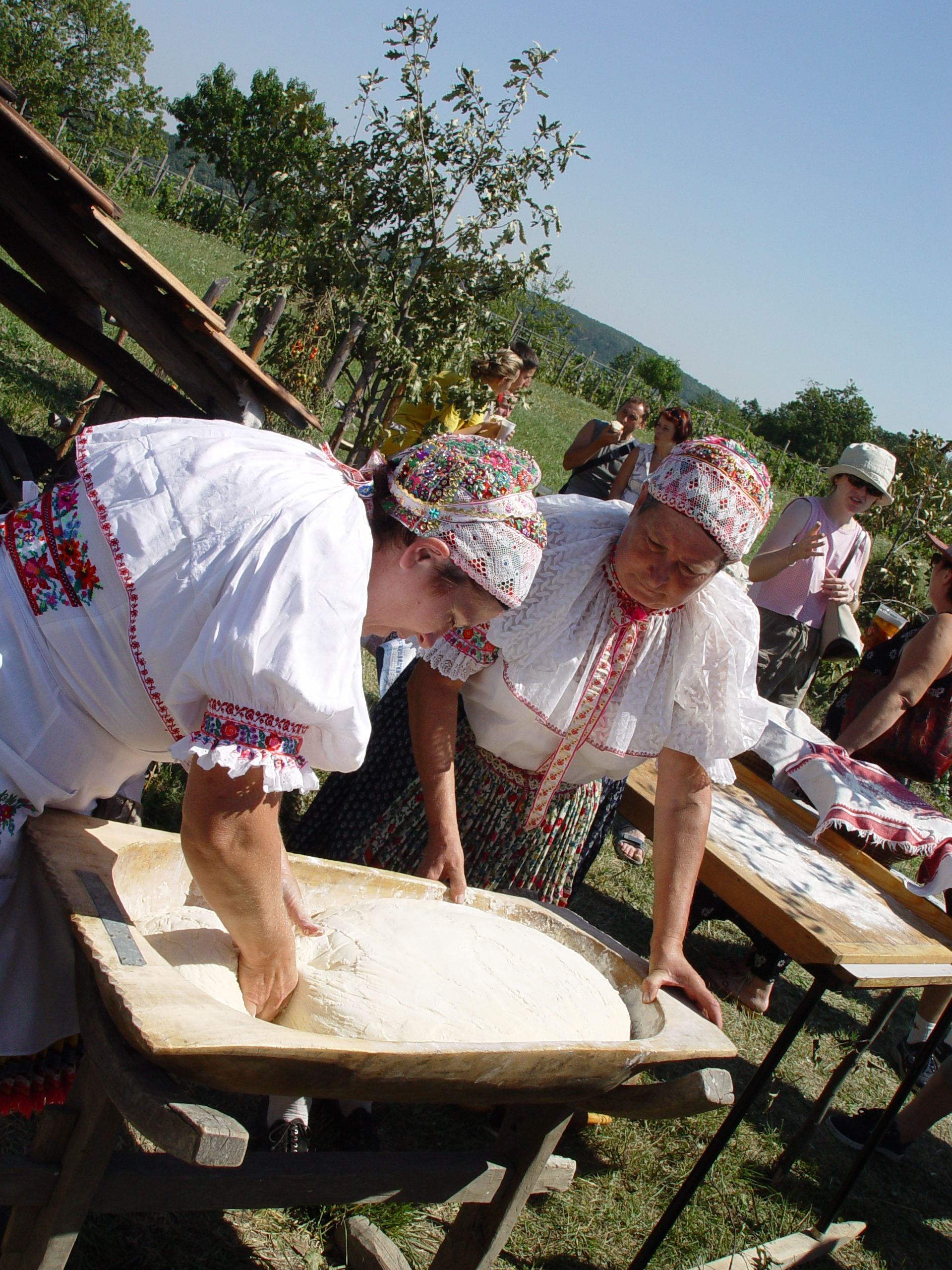 Bread making. Women kneading dough for bread making in a traditional dough trough during the Hontianska paráda folklore festival in Slovakia.